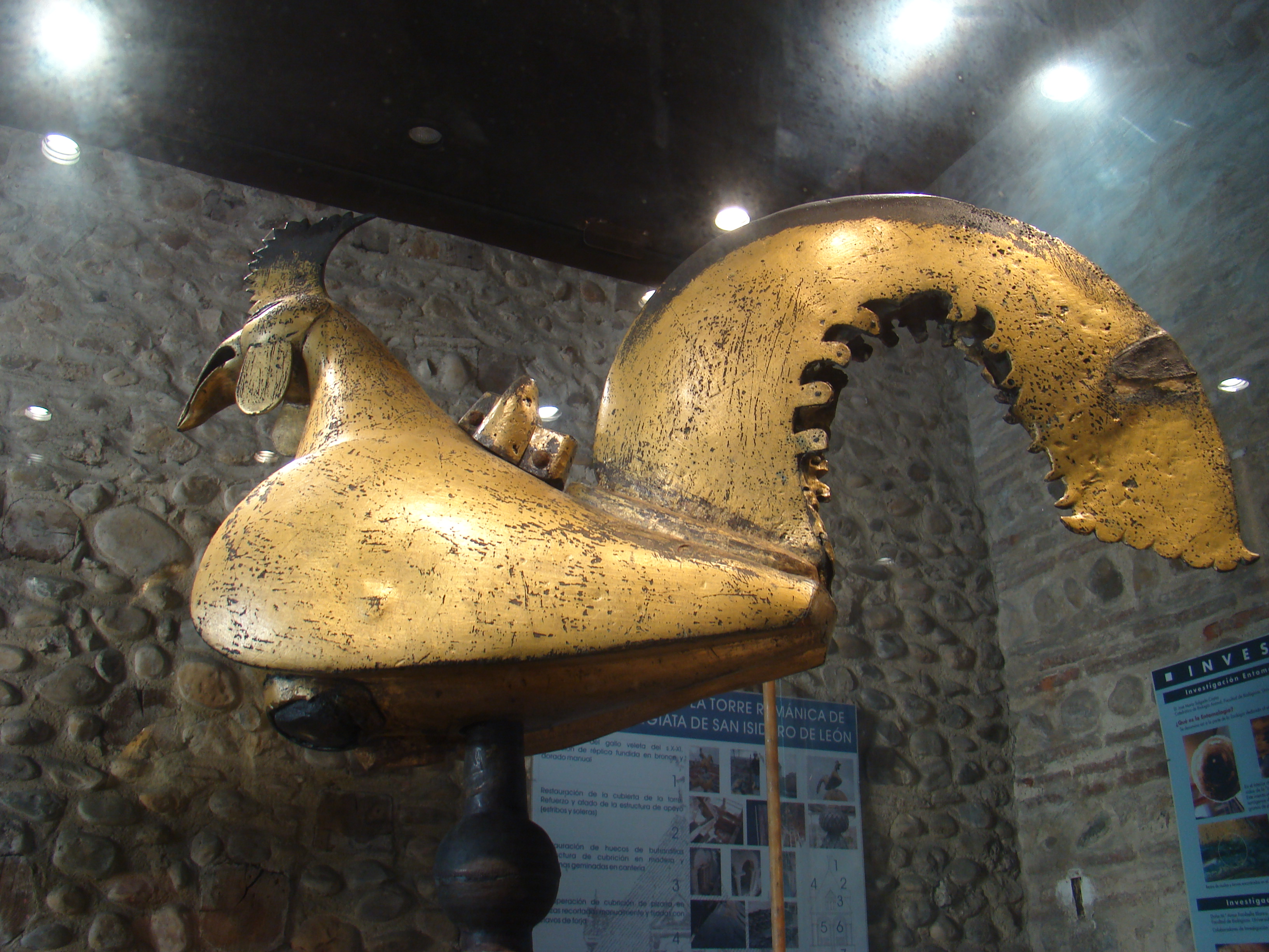 Original weathercock previously located at the top of the romanesque tower of San Isidoro de León (León, Spain). It is kept in the museum of the cloister. A duplicate of the original work was made to set onto the tower.